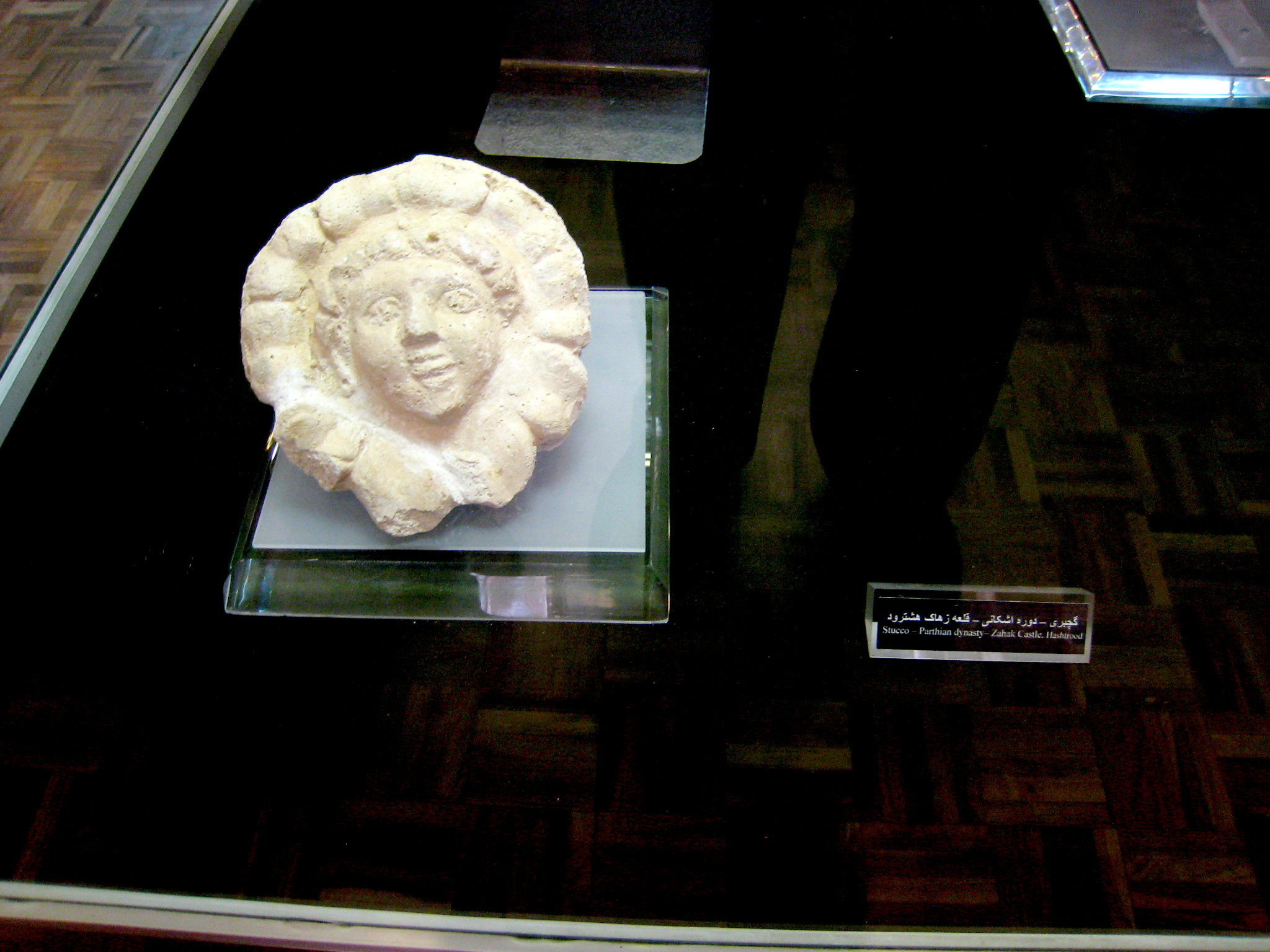 Stucco , Parthian dynasty , Zahhak Castle , Hashtrud , shown in Azerbaijan Museum , Tabriz , Iran